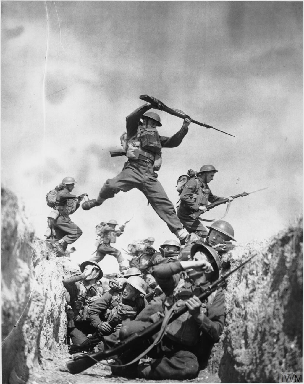 The British Army in the United Kingdom 1939-45 Troops of 6th Battalion, The Black Watch, stage a bayonet charge over trenches during a training exercise on the Isle of Wight, 10 August 1940.